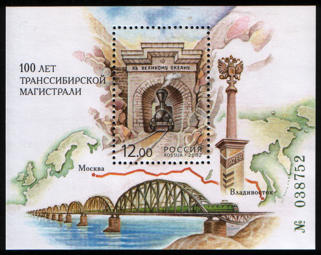 Stamps of Russia. The 100th anniversary of the MainTrans-Siberian railway (1937-2000), 2002